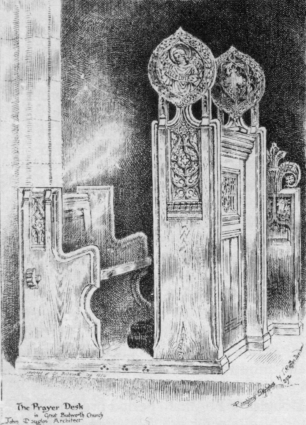 Image of a prayer desk in the Church of St Mary and All Saints, Great Budworth, Cheshire, England